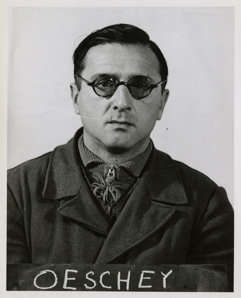 Rudolf Oeschey (1903-1980) was a high ranking Judge and Chief Justice of the Special Court, Nuremberg during the Second World War. This photograph of Oeschey (probably as a defendant during the Nurmeberg Trials No. III - the Justice Case) was taken by US Army photographers on behalf of the Office of the U.S. Chief of Counsel for the Prosecution of Axis Criminality (OUSCCPAC, May 1945 - Oct. 1946) or its successor organization, the Office of Chief of Counsel for War Crimes (OCCWC, Oct. 1946 - June 1949).